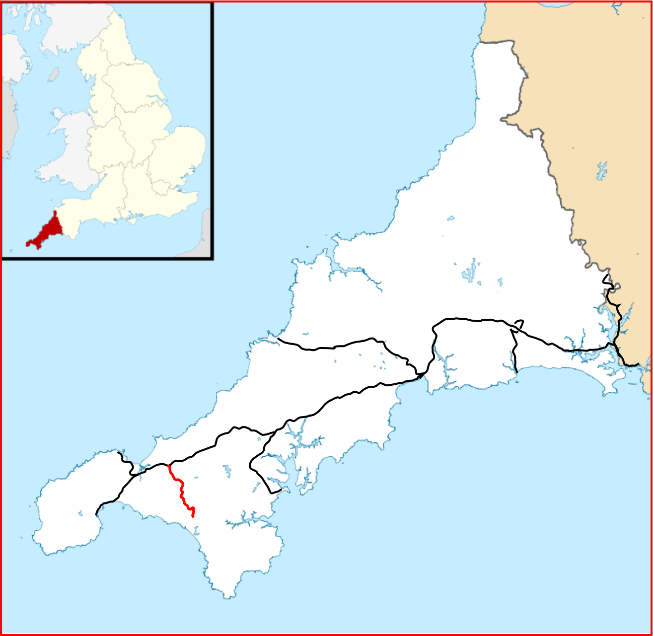 Helston railway branch line in the context of Cornwall's railways